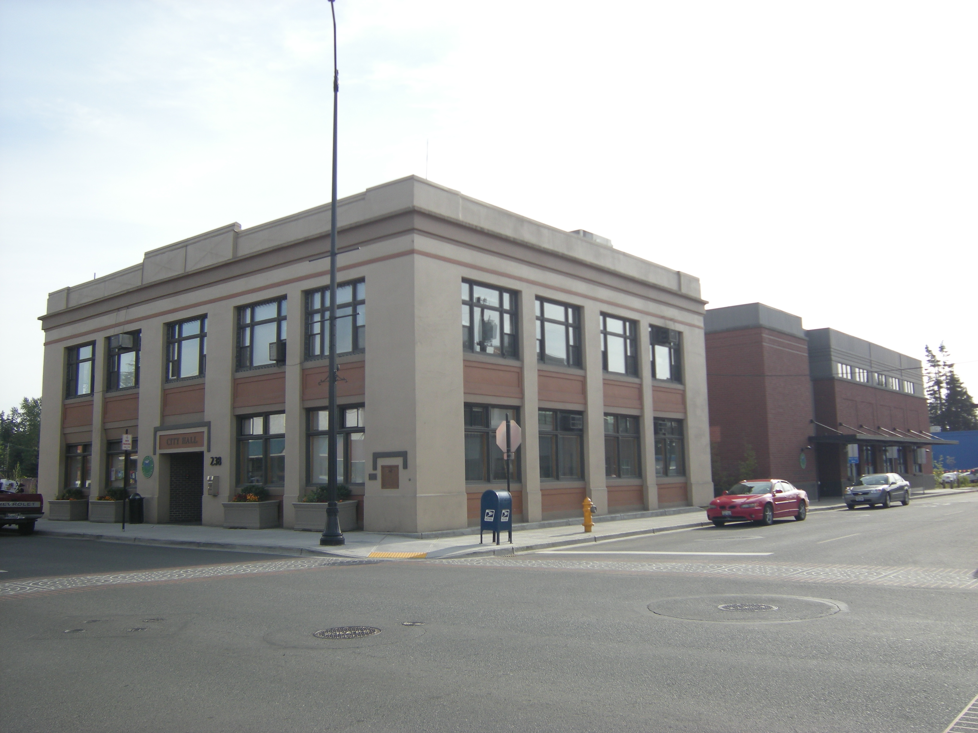 City Hall, Arlington, Washington, USA, on the west side of N. Olympic Ave. It was built in 1924.